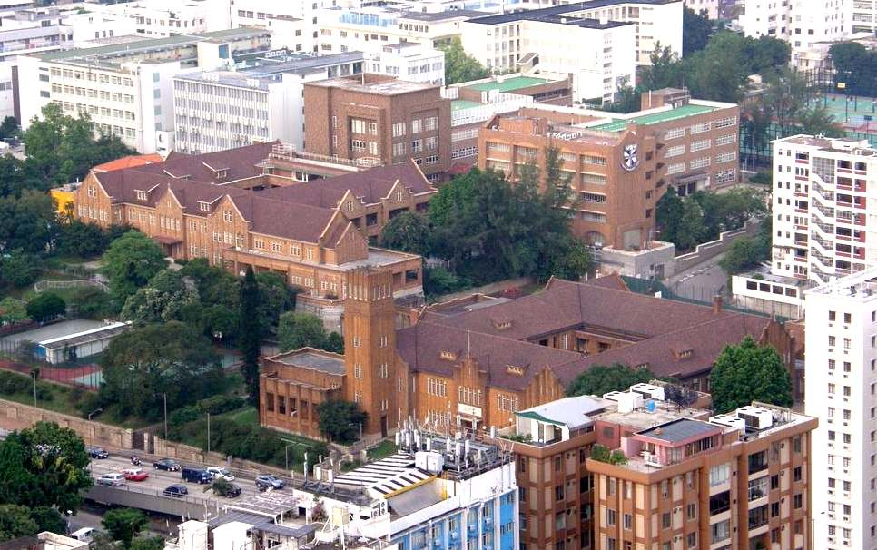 View of Maryknoll Convent School grounds, with Waterloo Road in the front